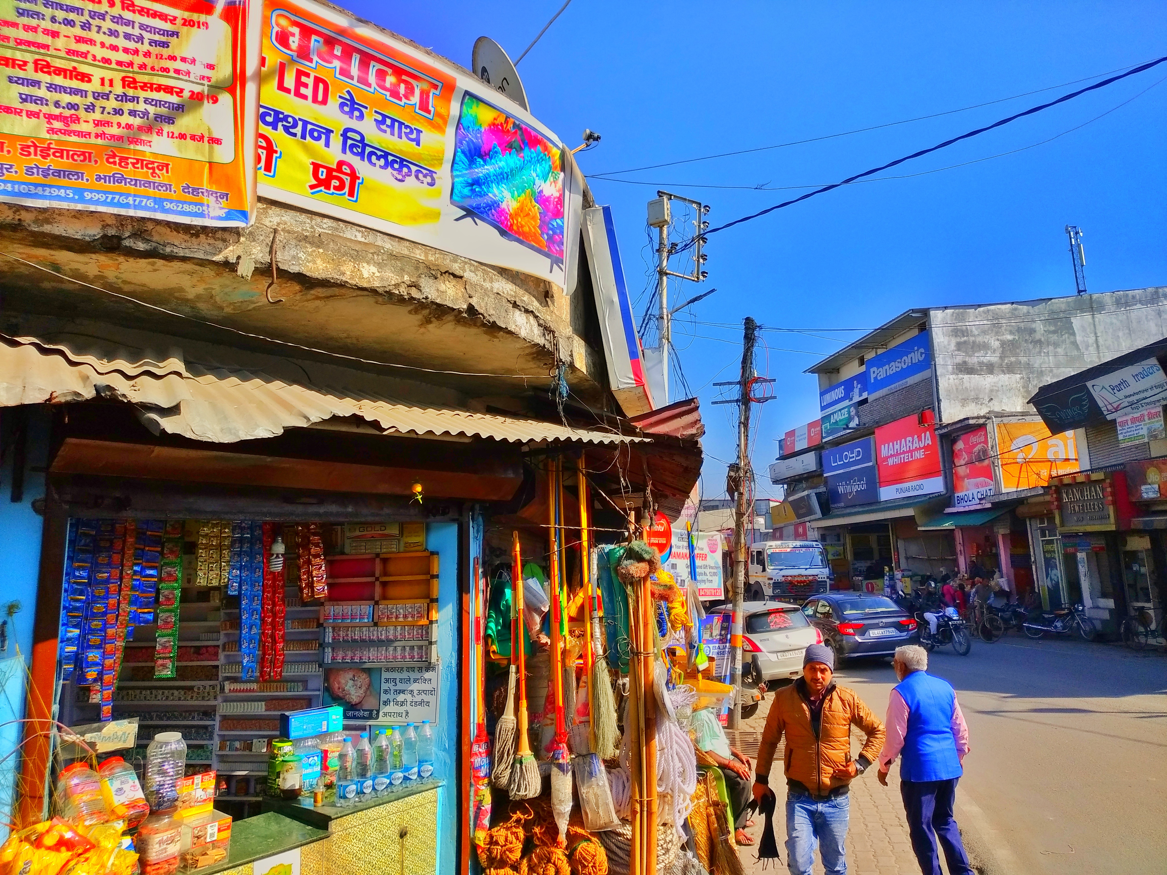 Rishikesh Road, Doiwala